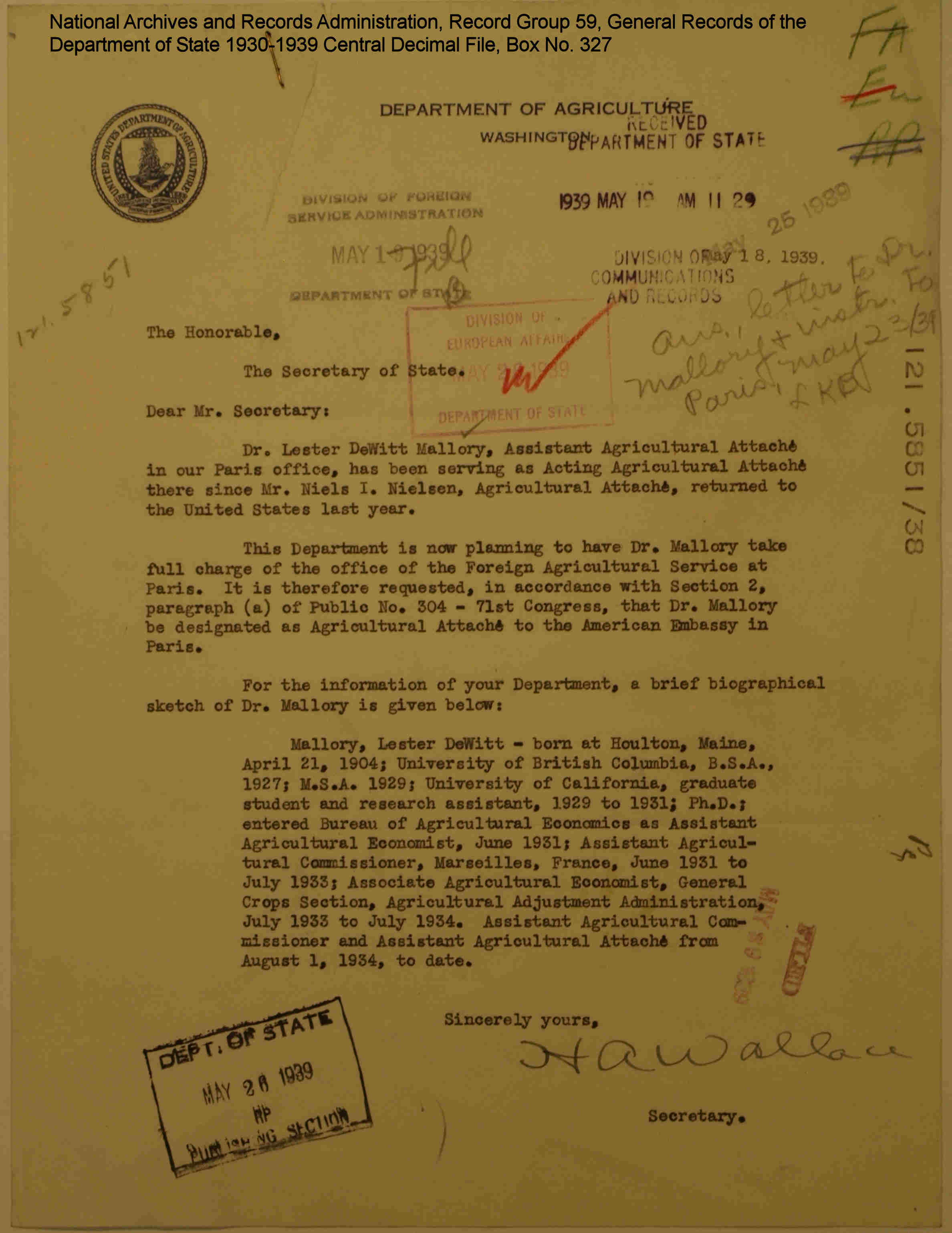 Letter from Secretary of Agriculture Wallace to the Secretary of State notifying of appointment of Lester Mallory as agricultural attache at Paris.